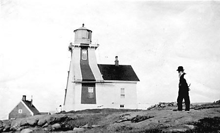 Picture of the Point Prim Lighthouse in 1874